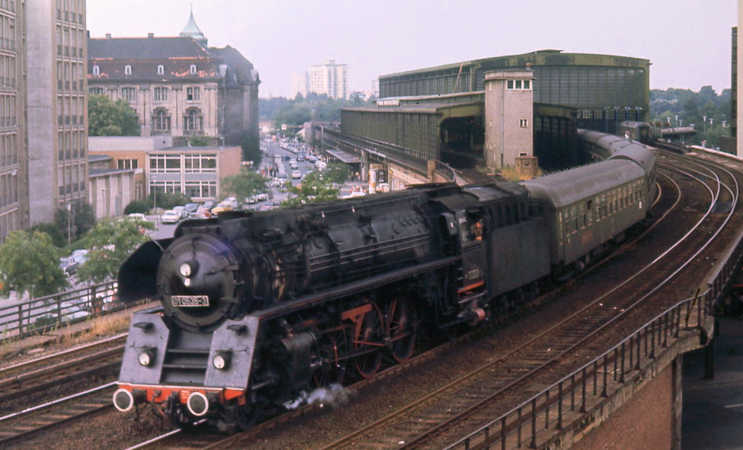 Steam locomotive 01 0535-3 leaves Berlin Zoologischer Garten station.